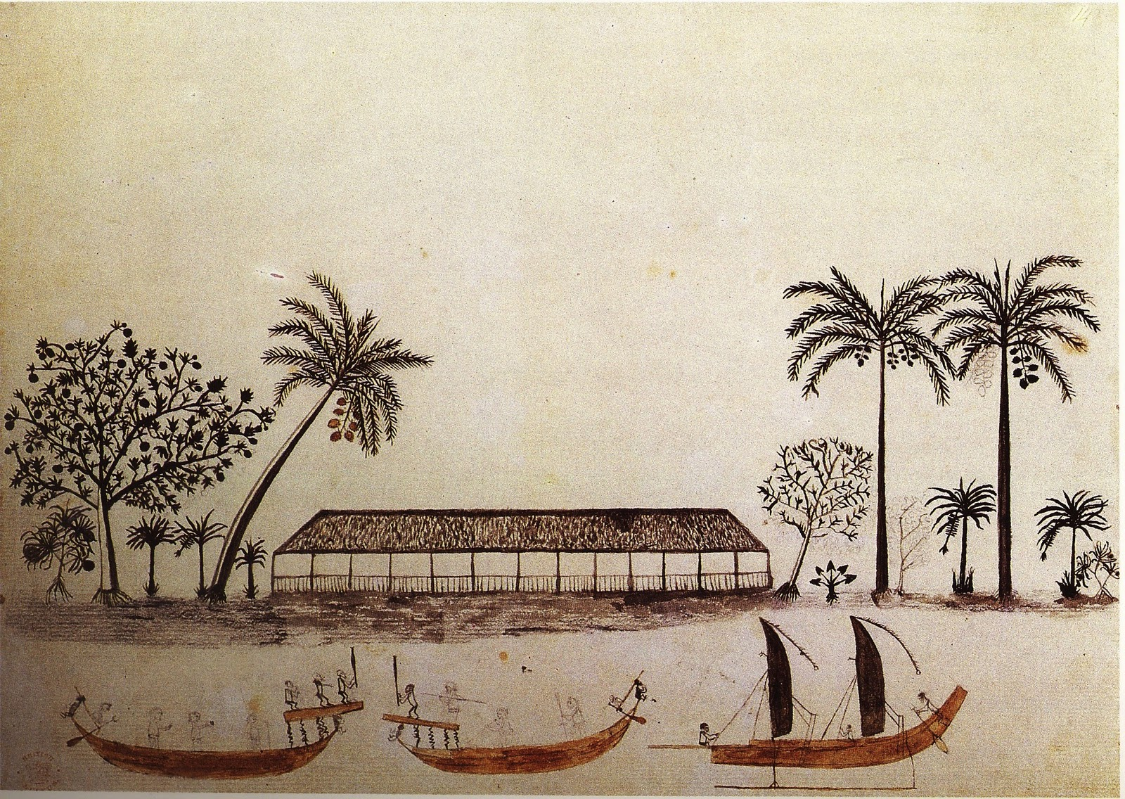 Canoes near Tahiti. Drawing by Tupaia, a native of Raietea, who travelled with Captain James Cook to New Zealand, Australia and Java.